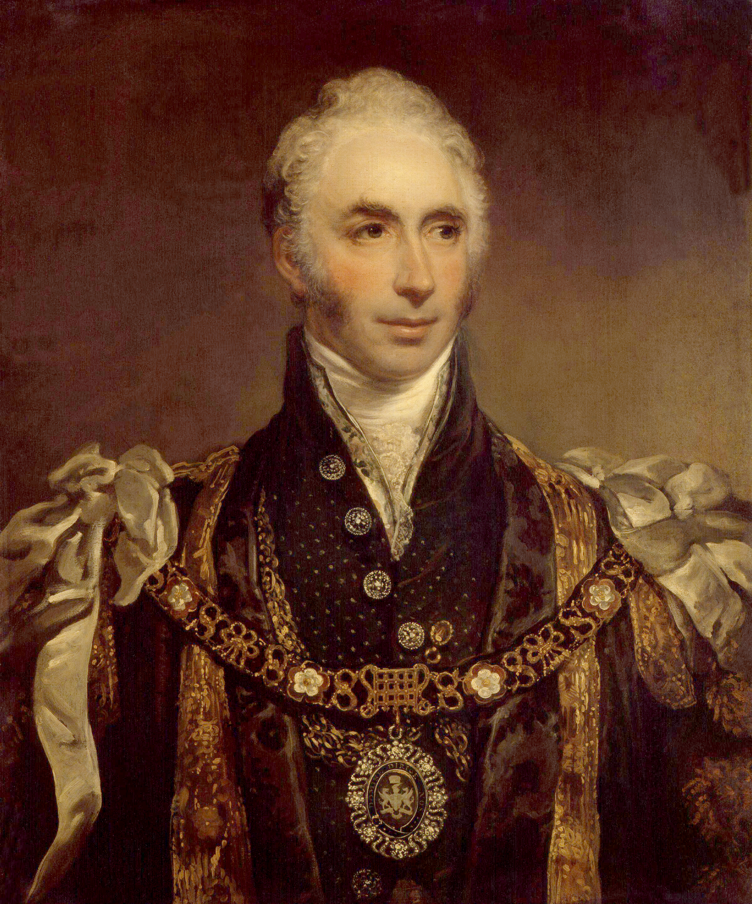 Sir Matthew Wood, 1st Bt, by Arthur William Devis (died 1822). Wearing the chain of Lord Mayor of London, the badge pendent therefrom showing the arms of the City of London circumscribed by the motto Domine Dirige Nos. All images in this batch have been confirmed as author died before 1939 according to the official death date listed by the NPG.